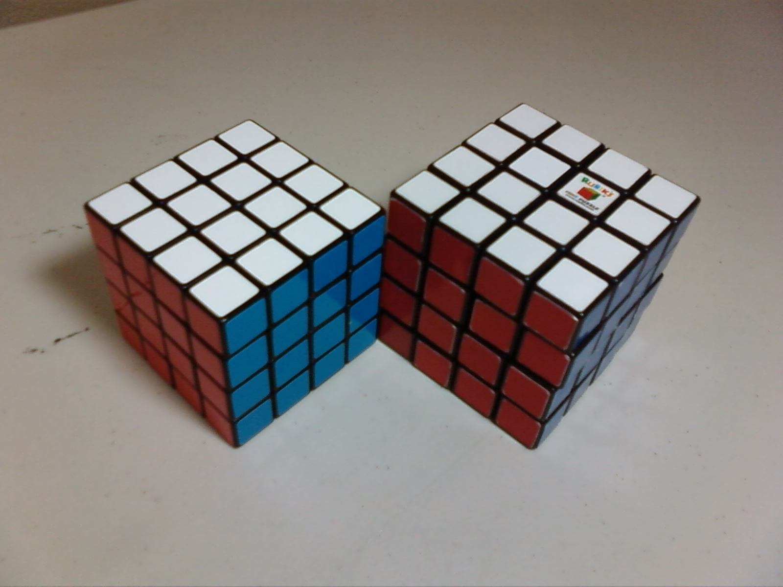 Size comparison between Rubik and Eastsheen 4x4x4 cubes.